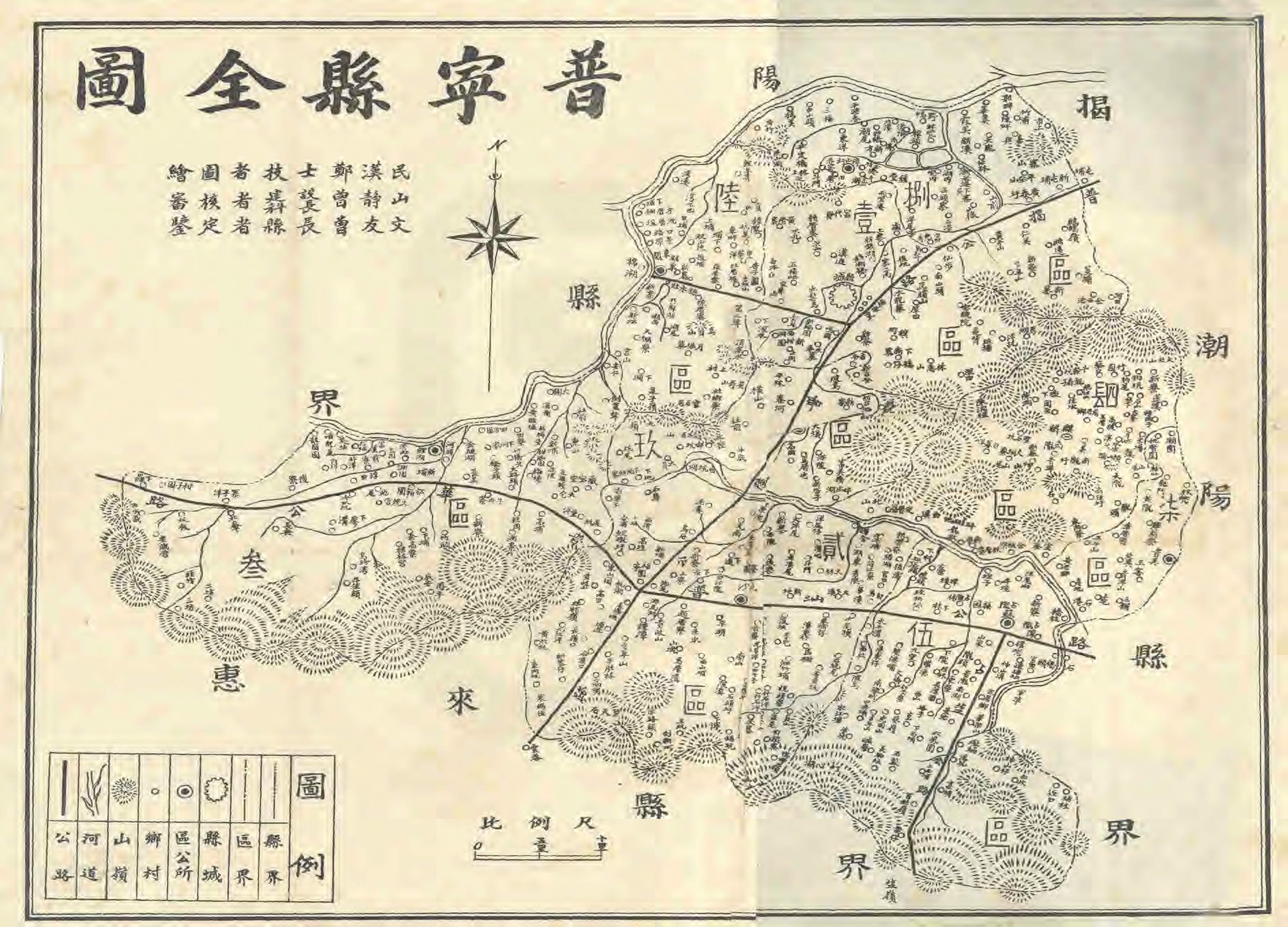 Map Of Puning County at 1934.